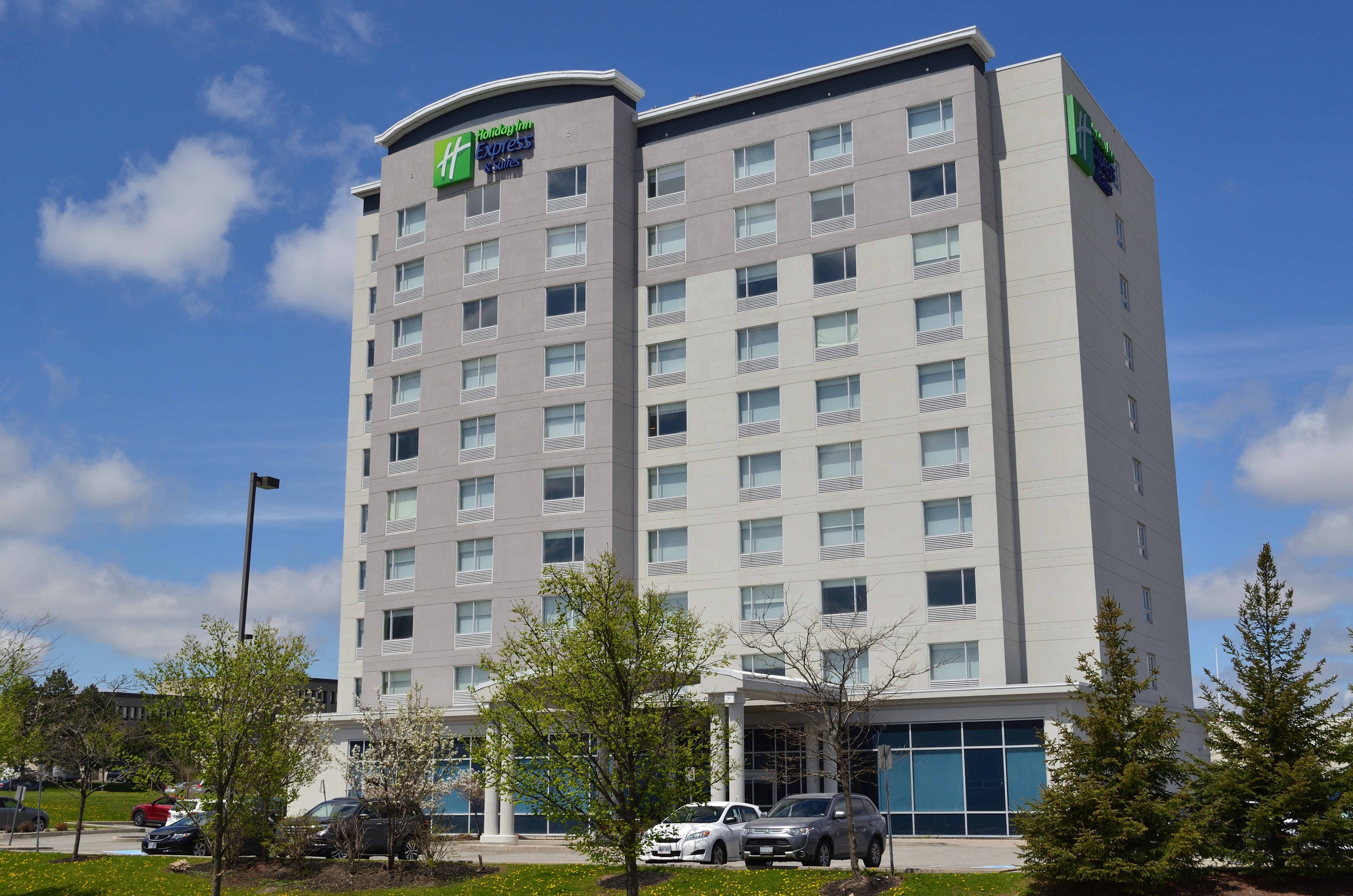 Holiday Inn Express & Suites Toronto - Markham - address: 10 East Pearce St, Richmond Hill, ON L4B 0A8